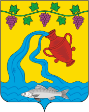 Coat of arms of Kurchanskaya, Krasnodar Krai, Russia.